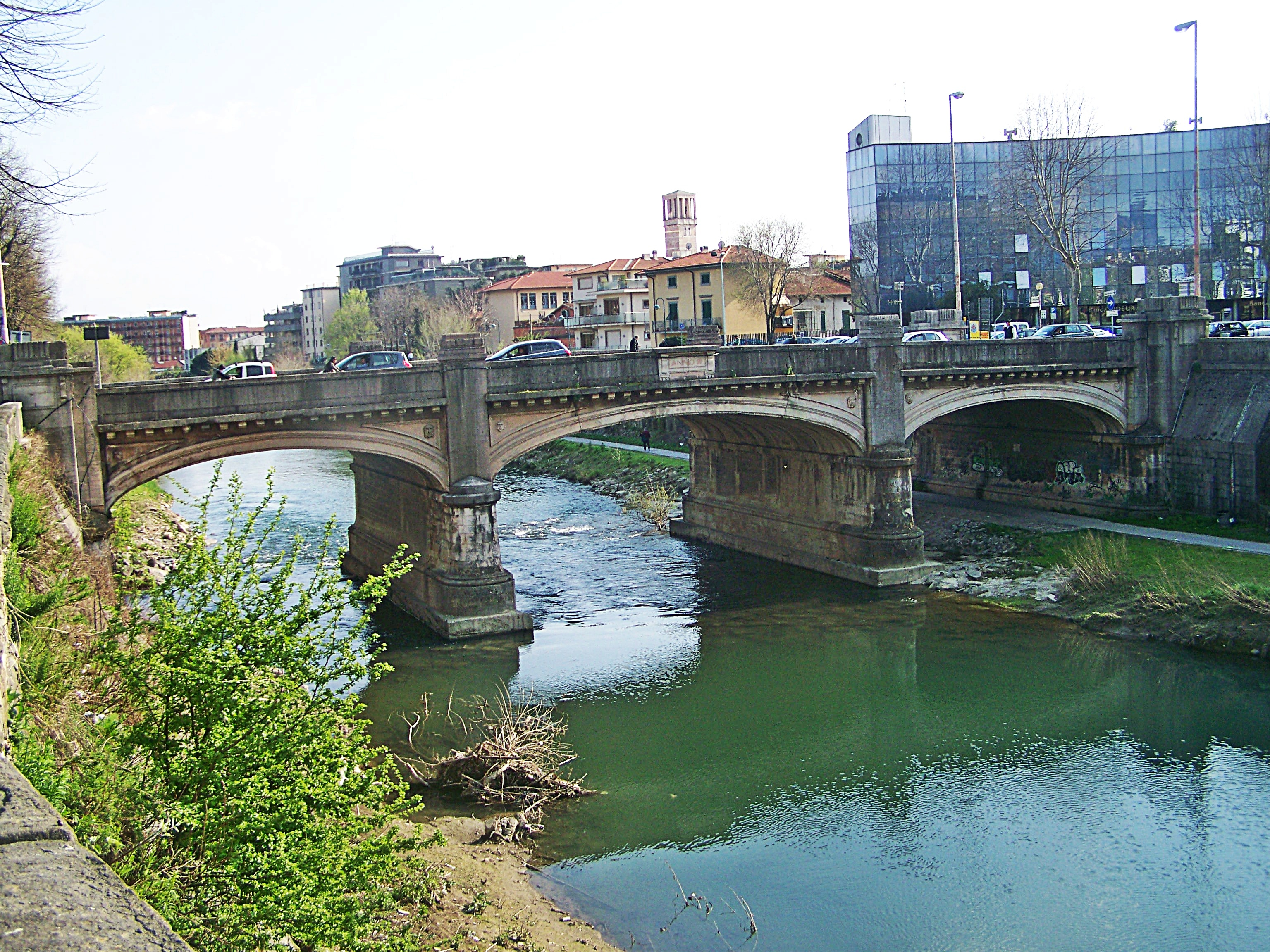 Vittoria bridge